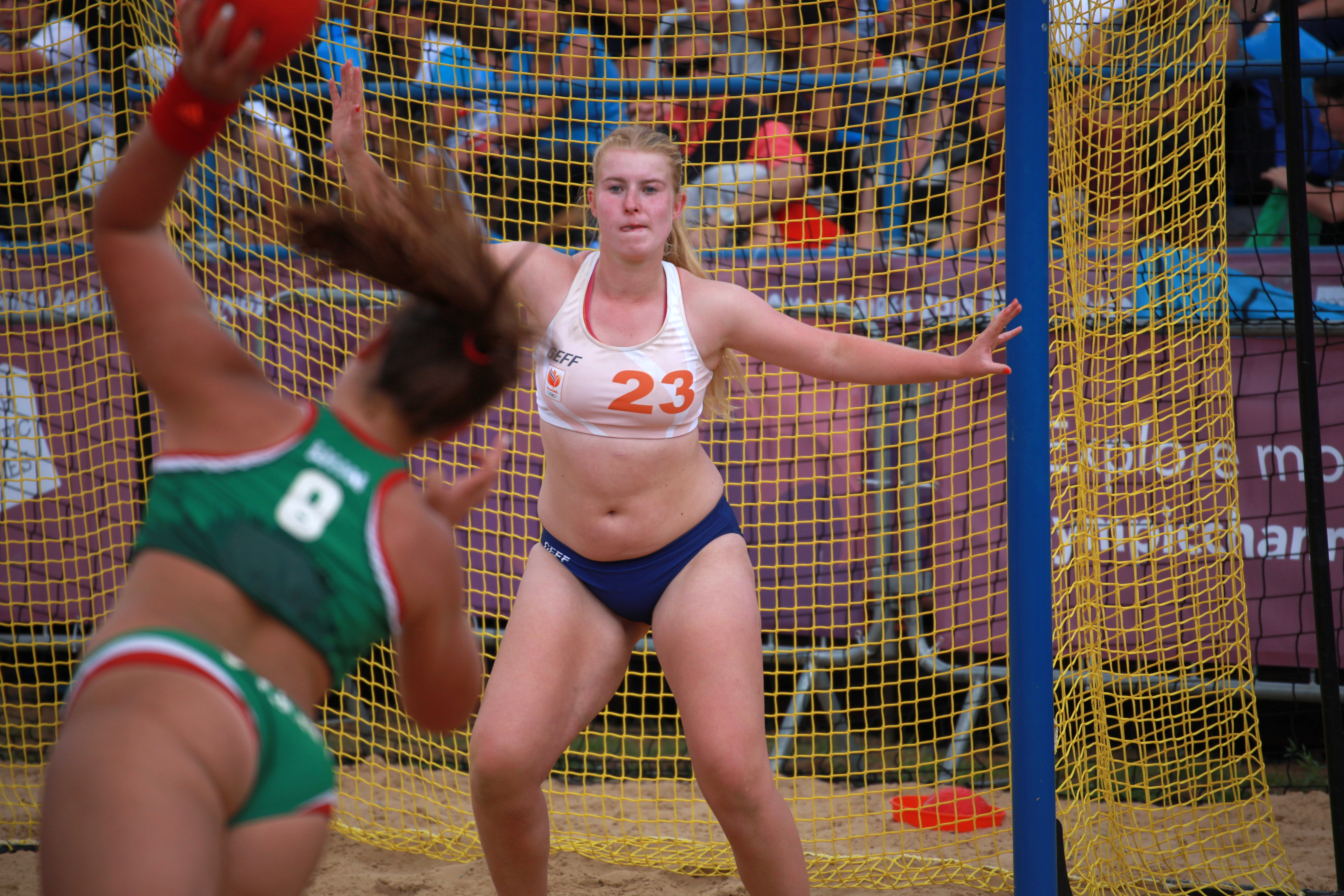 Beach handball at the 2018 Summer Youth Olympics in Buenos Aires at 13 October 2018 – Girls Bronze Medal Match – Hungary-Netherlands 2:0